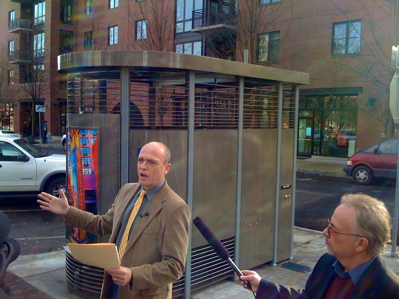 Portland Loo Portland, Oregon designed and owns the patent on this loo. The City of Roses sells it to other cities. This is public loo #4.